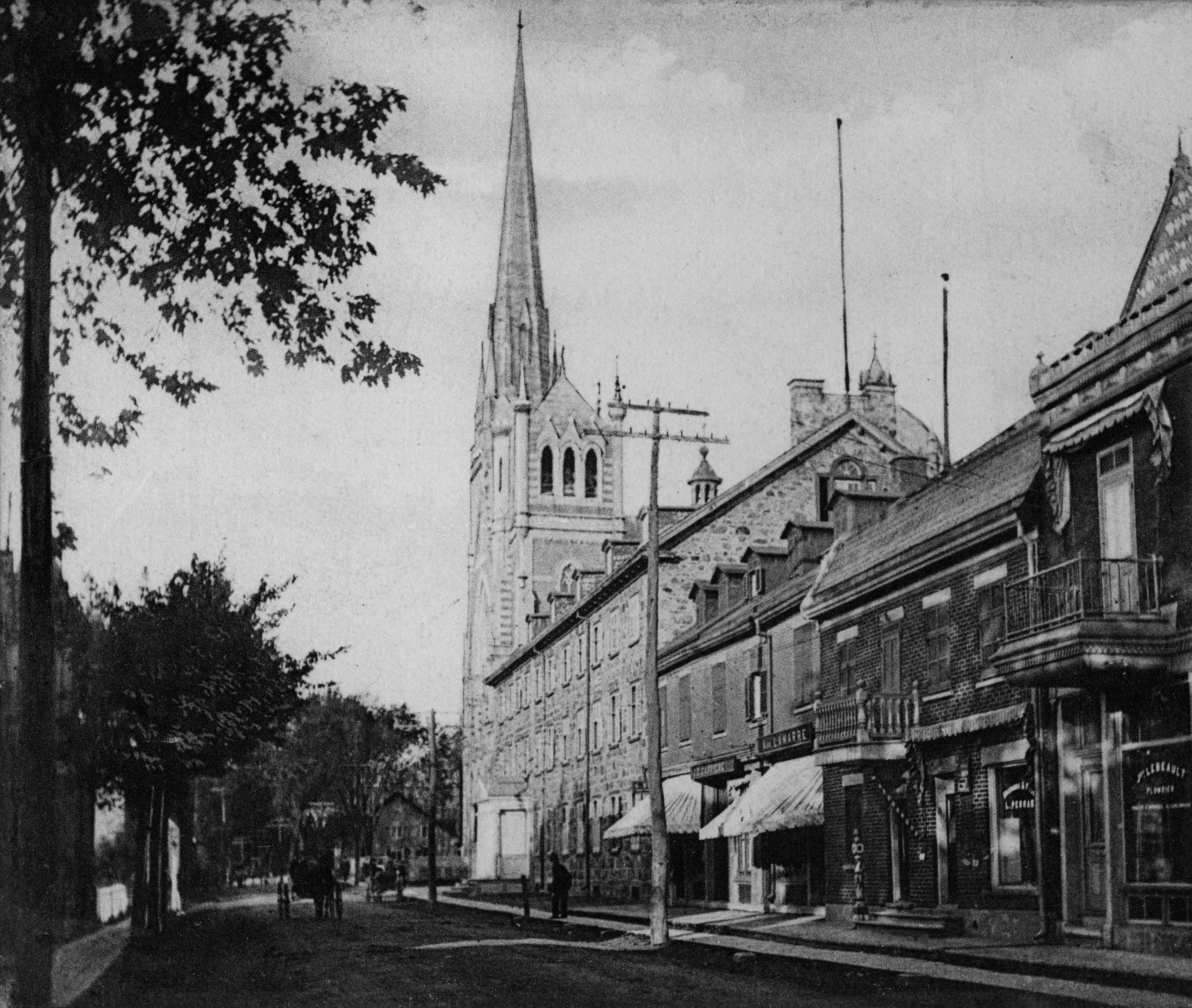 Print, The church and Rue St. Charles, Longueuil, QC, about 1910, Anonymous, Ink on paper mounted on card - Collotype, 9 x 10 cm